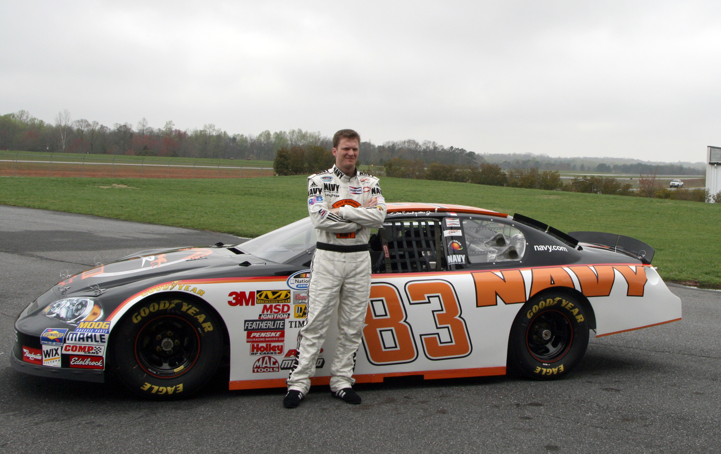 080401-N-5487R-002 MOORESVILLE, N.C. (APR. 01, 2008) Dale Earnhardt Jr., team owner of the No. 88 Navy Accelerate Your Life Monte Carlo SS, is photographed during a recent production day for the Dale Jr. Division, a national-level, first-of-its-kind Navy recruiting program. To officially launch the division May 24, Earnhardt Jr. will drive the No. 83 Navy Dale Jr. Division car in the Nationwide Series race at Lowe's Motor Speedway.